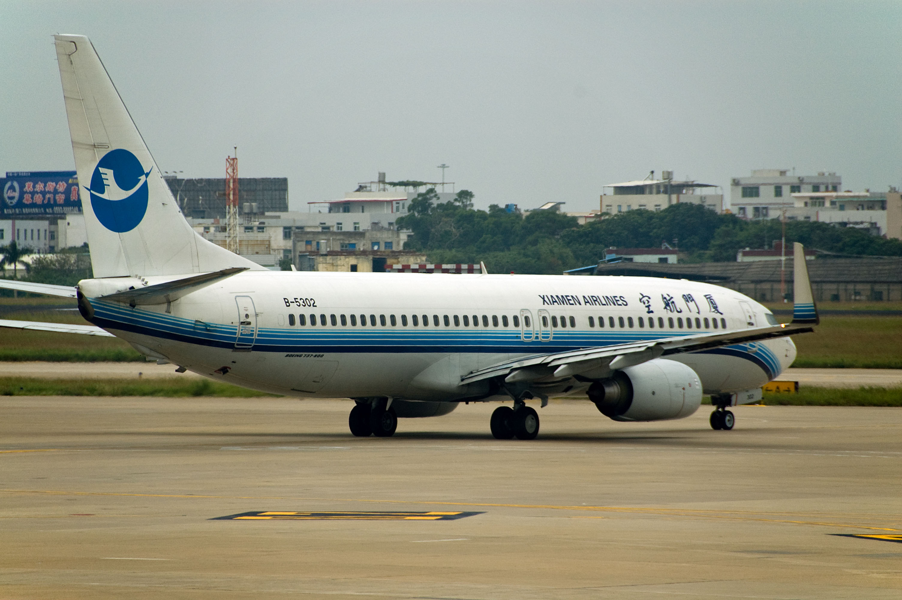 An aircraft of Xiamen Airlines (with revised paint) taxing at Xiamen Gaoqi International Airport Aircraft model: Boeing B737-85C Registration number: B-5302